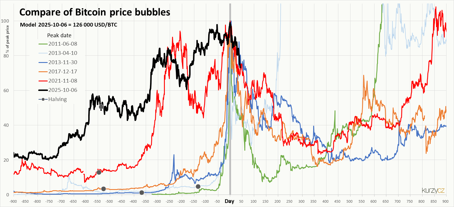 Comparing of the three great price bubbles on bitcoin - 06/2011, 4/2013, 11/2013 with 2017.